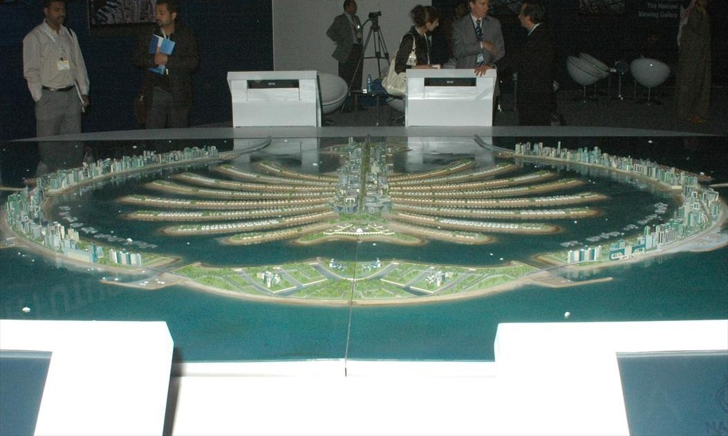 This is a photo of a model of the Palm Jebel Ali on 20 January 2008. The model was at the Tourism Development Projects & Investment Market 2008 (TDIM 2008) in the Dubai International Exhibition & Convention Centre.